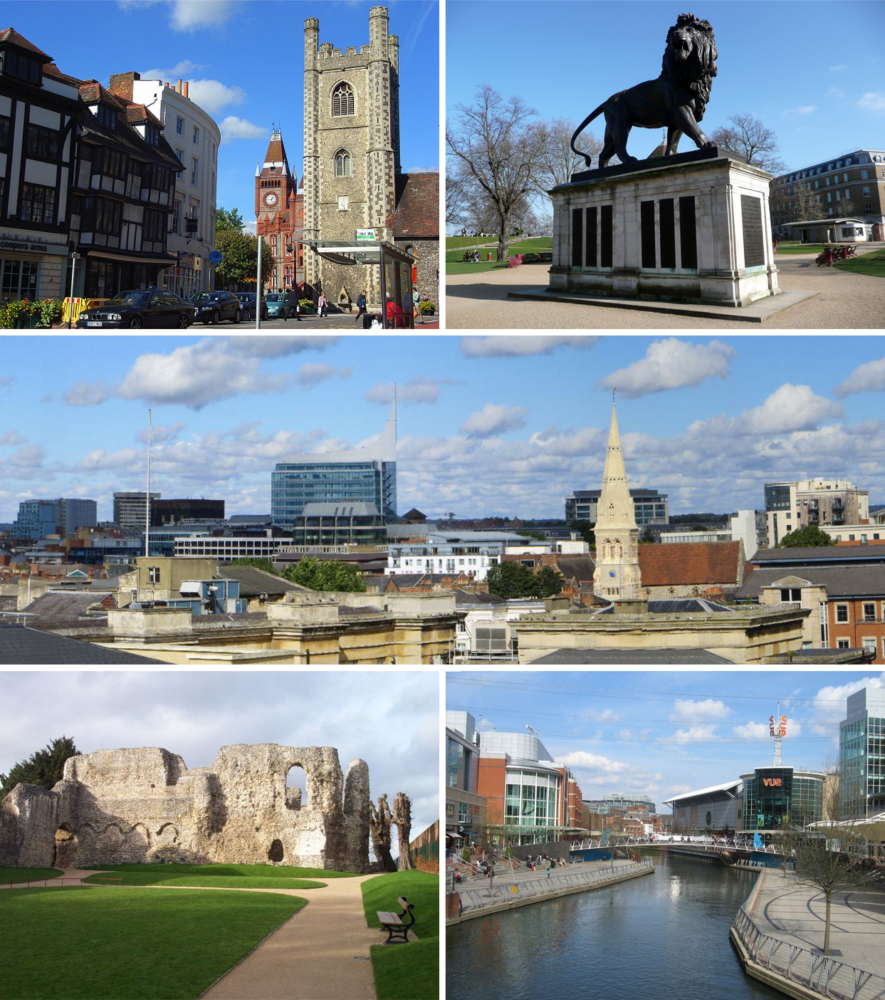 Montage of Reading using images from Commons. Images are of the Town Hall and St Laurence's Church, the Maiwand Lion, the Town Centre skyline from the Royal Berkshire Hospital, Reading Abbey and The Oracle.